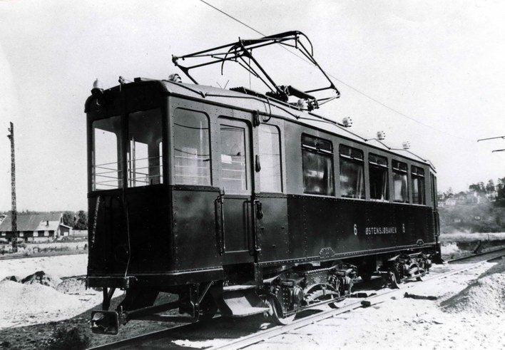 Østensjøbanen Class A operated by Akersbanerne.